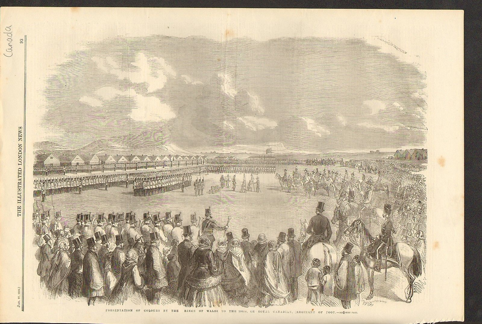 Illustration from The Illustrated London News